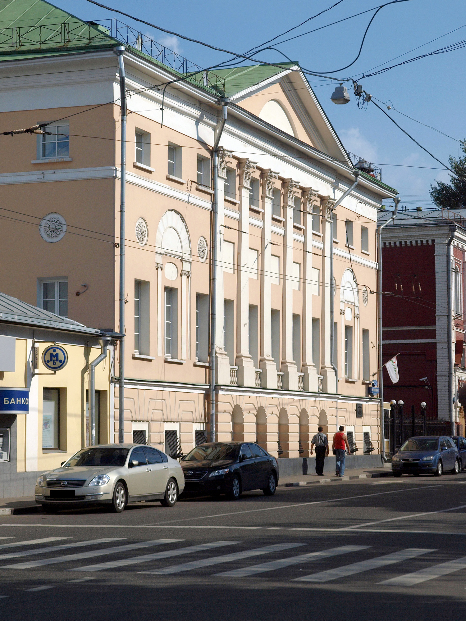 Pyatnitskaya Street, Moscow.